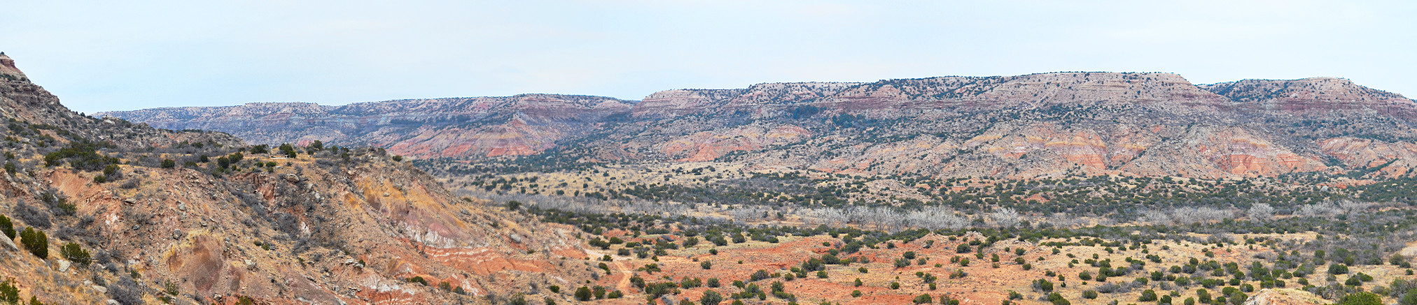 This is a panoramic view of the Palo Duro Canyon from a park road descending into the canyon. One can see the colours representing the Quartermaster, Tecovas, Trujillo and Ogallala formations on some of the structures.